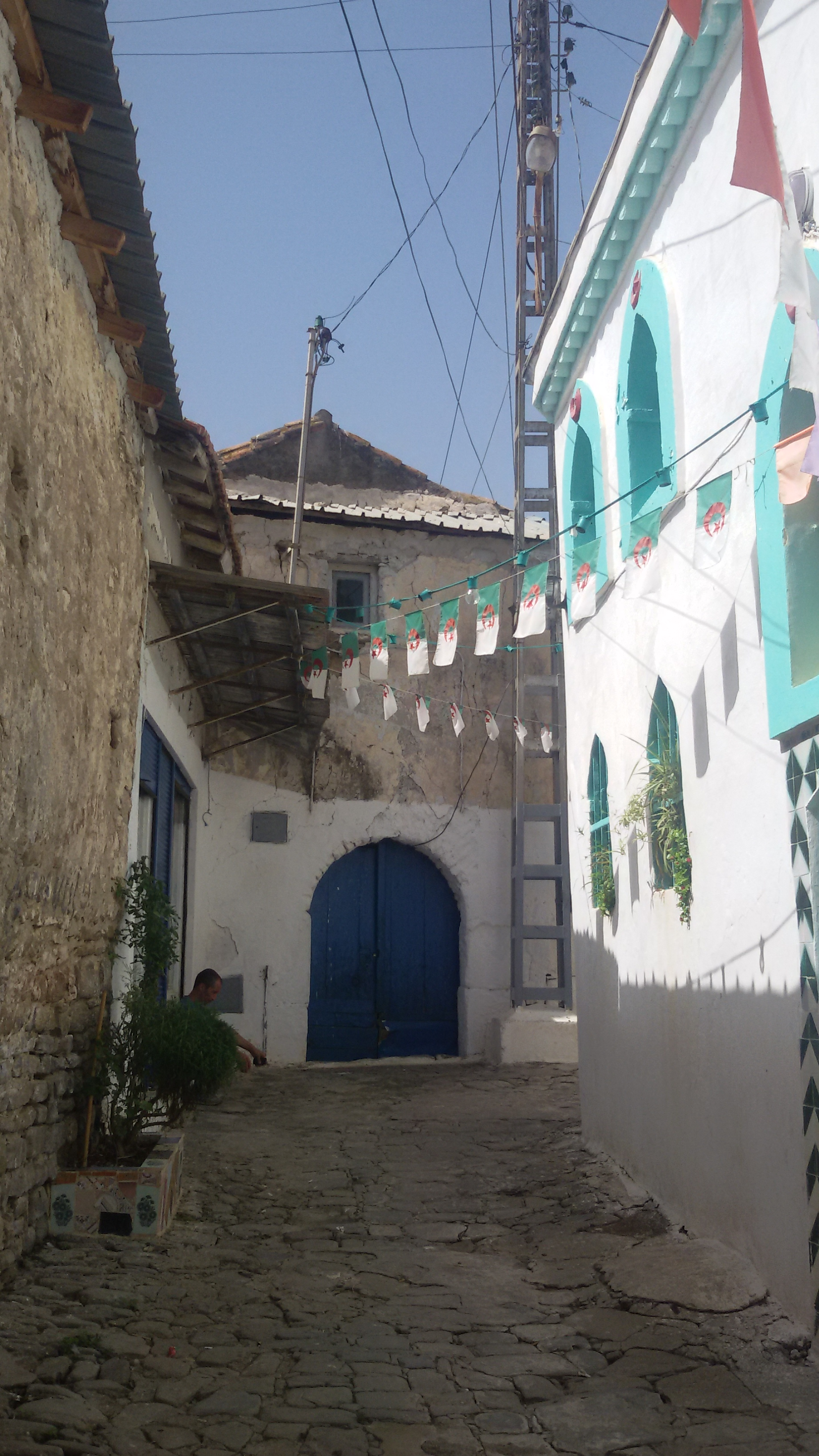 This is an image of music and dance from Algeria قصبة دلس Casbah de Dellys